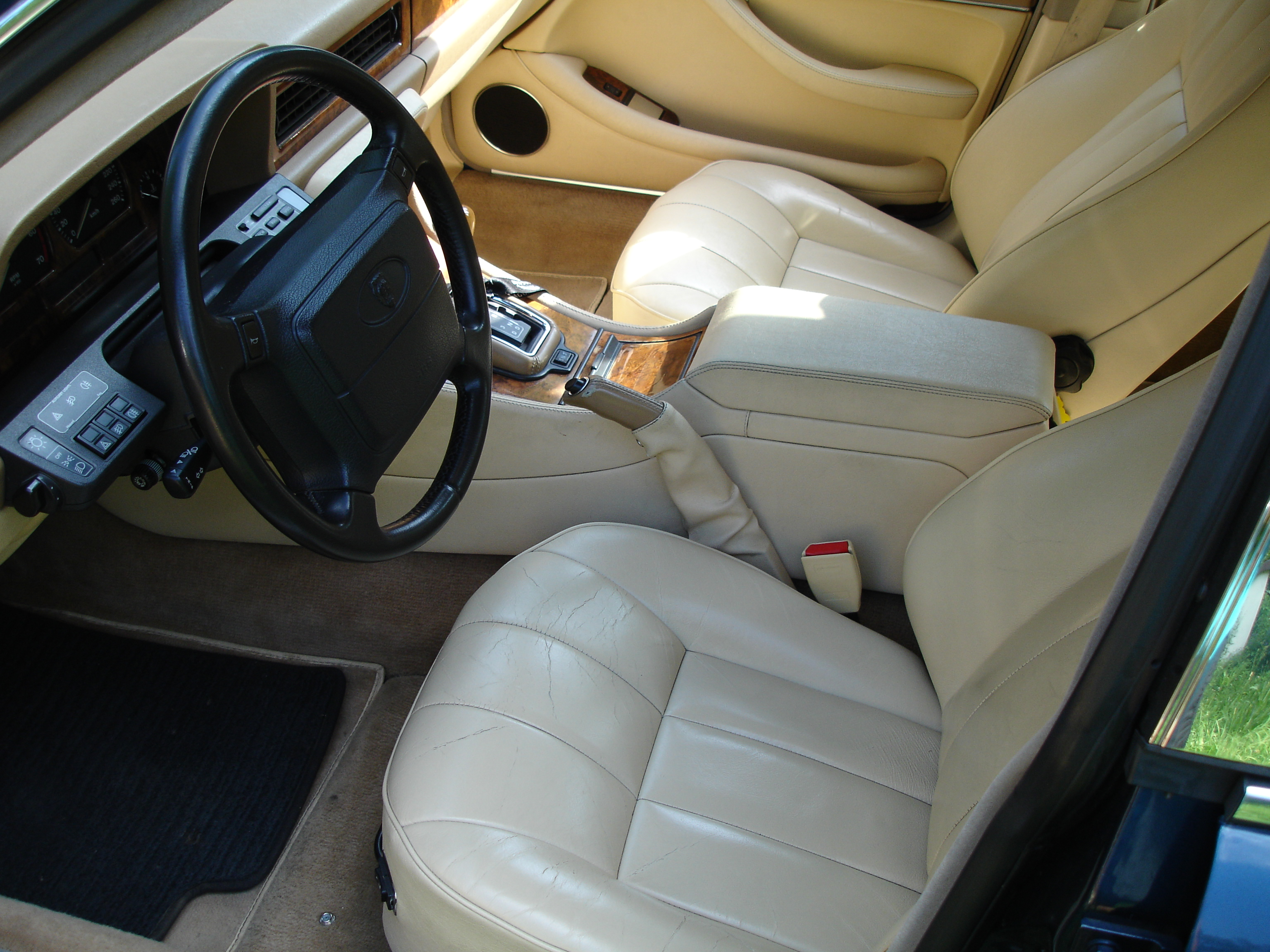 Jaguar XJ6 "Gold" Interieur